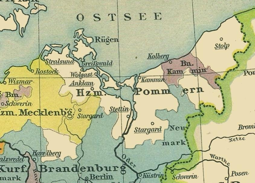 Pomerania in 1477